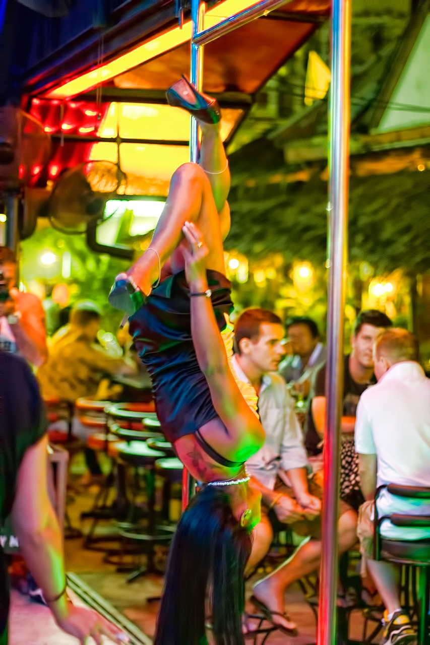 Bar with girls, beer, cocktails and sport in Ao Nang, Krabi, Thailand.